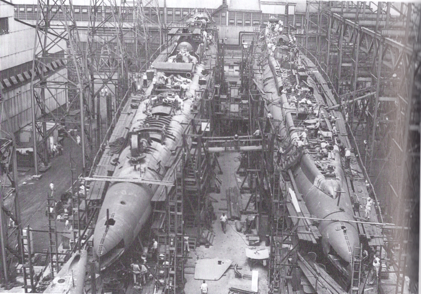 The U.S. Navy submarines USS Ulua (SS-428), left, and USS Trumpetfish (SS-425) under construction at the Cramp Shipbuilding Company in Philadelphia, Pennsylvania (USA), on 2 July 1945.